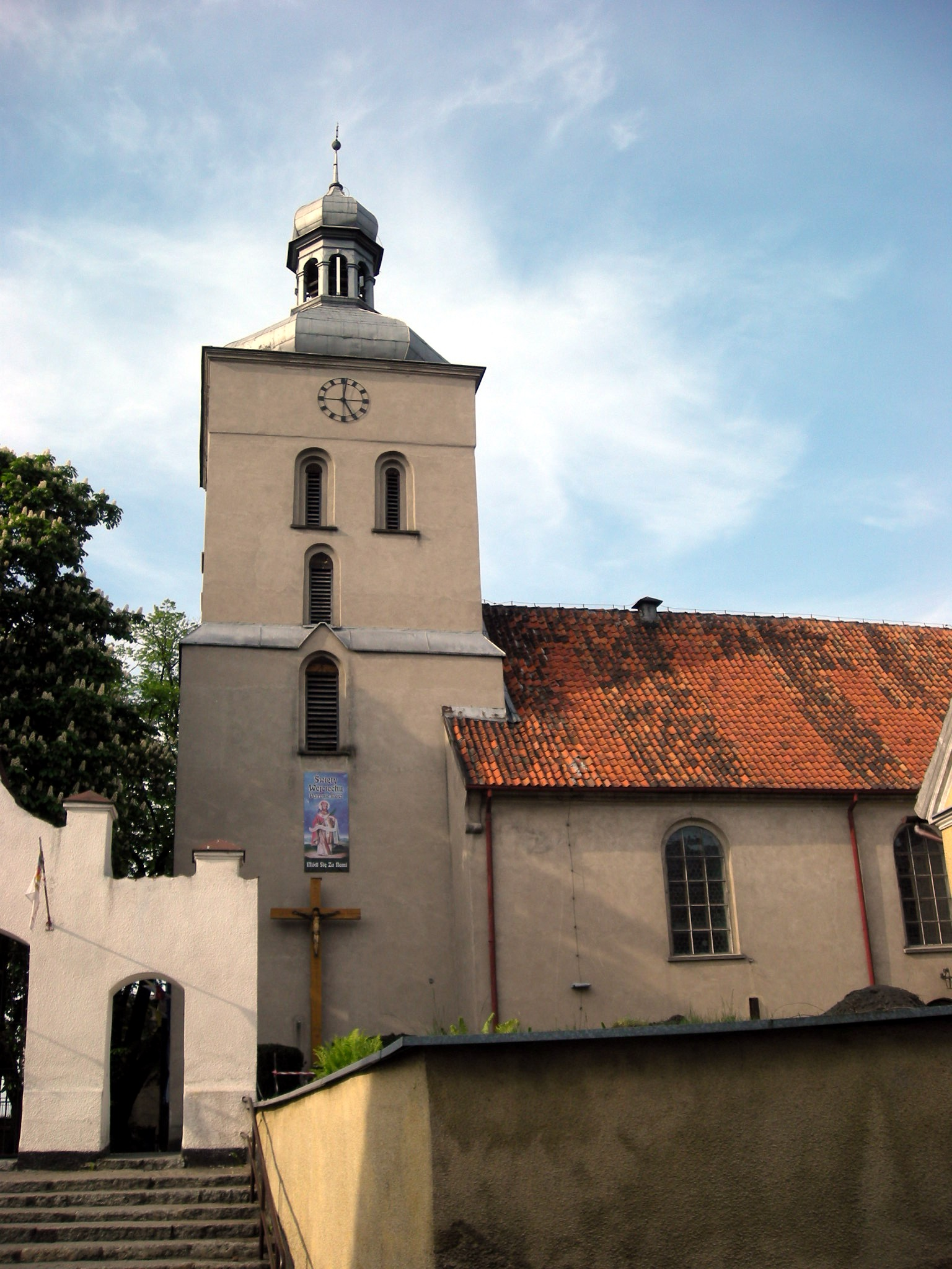 The church in Lidzbark, Poland.